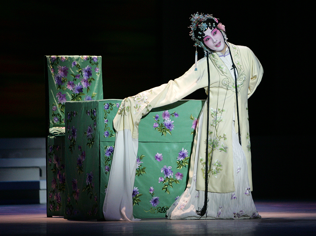 Kunqu performance at the Peking University